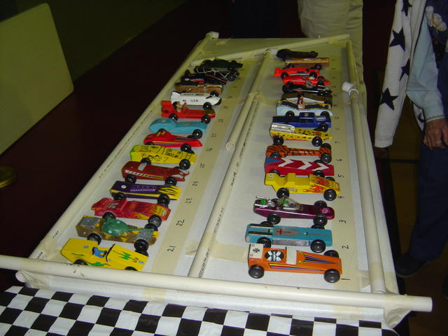 2004 Istrouma Area Council Pack 178 Pinewood Derby cars.